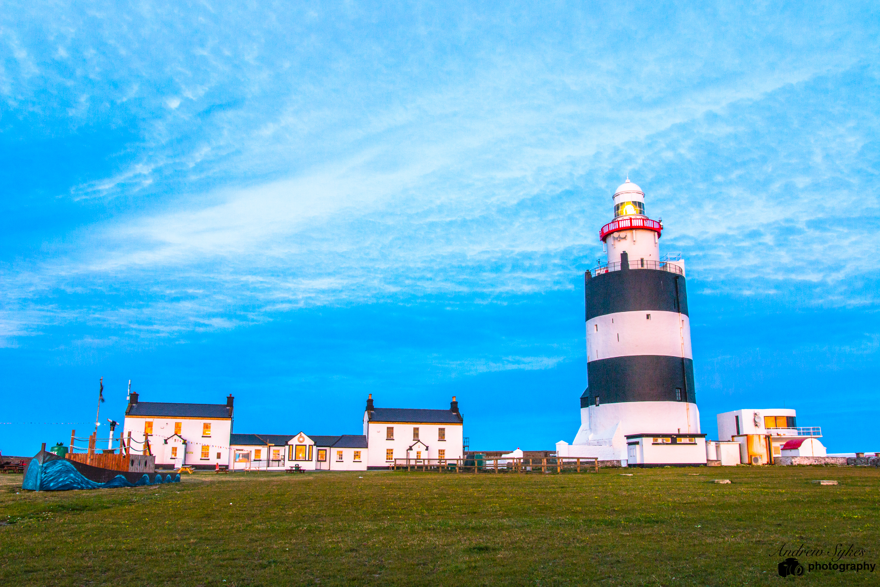 Hook Lighthouse